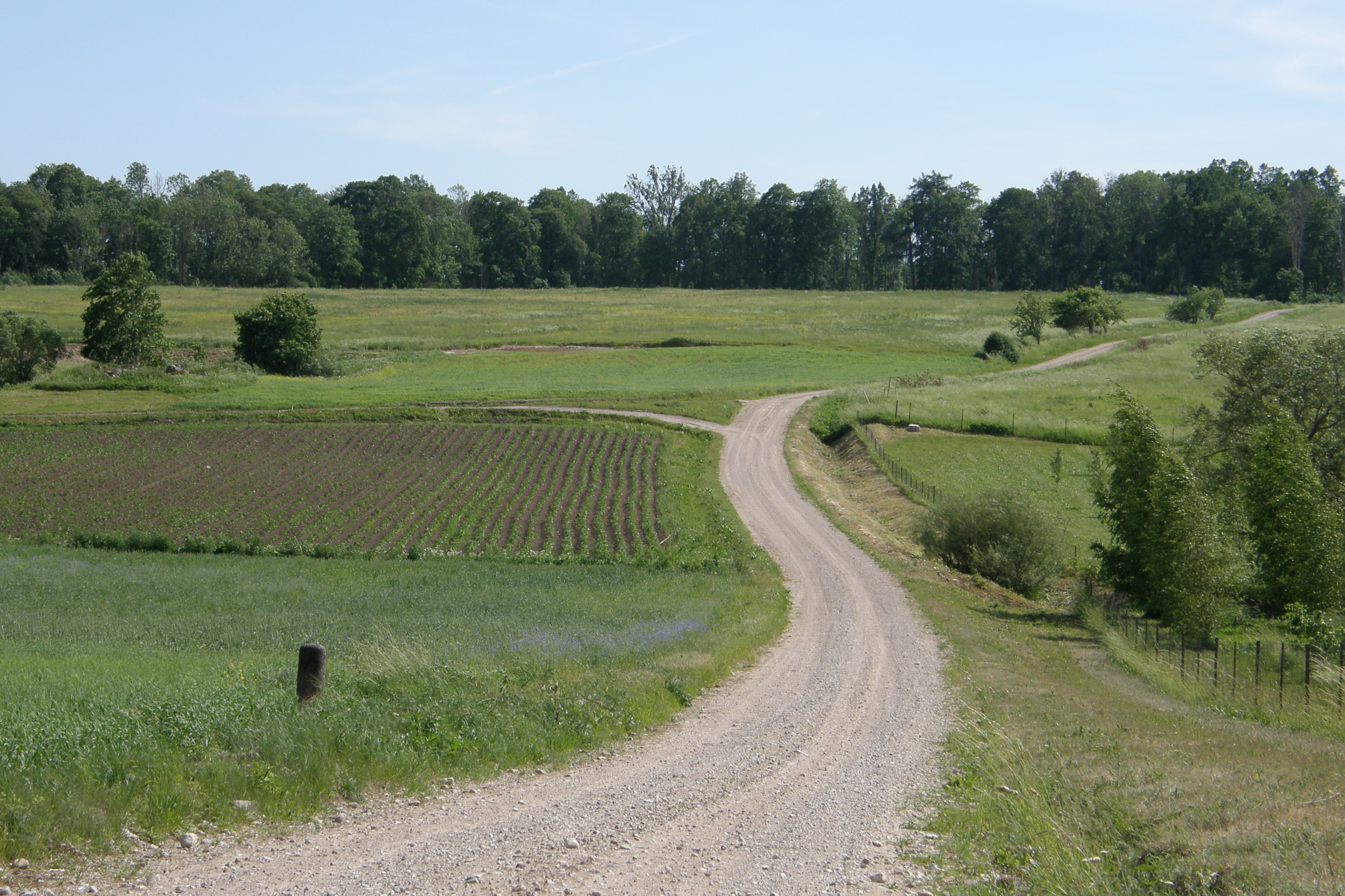 Path